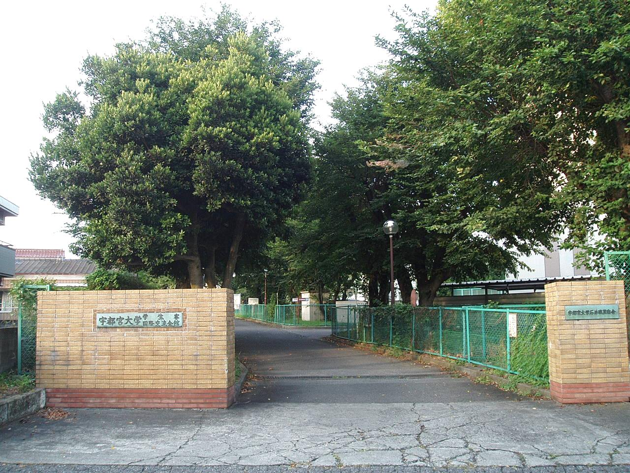 Entrance to the dormitories of Utsunomiya University, located in Utsunomiya, Tochigi, Japan.